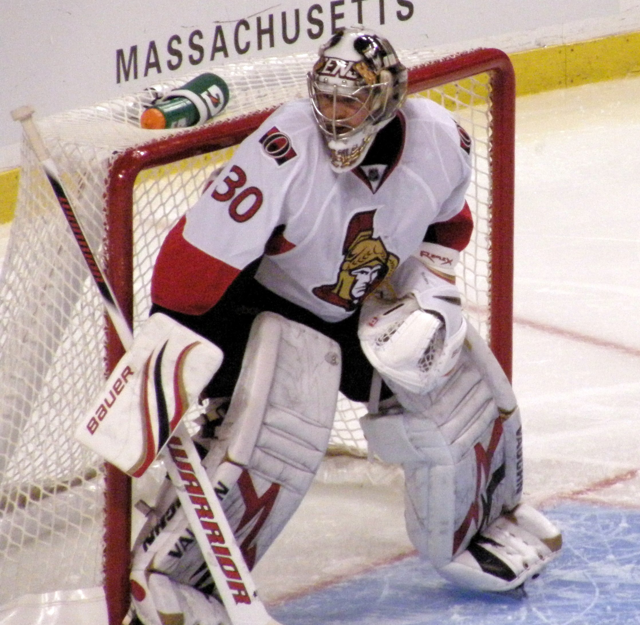 Brian Elliott, Goalie for the Senators 2009-11-28 Senators at Bruins Cropped from original Camera: Olympus SP560UZ License on Flickr (2011-01-08): CC-BY-2.0 Flickr tags: NHL, icehockey, ice, hockey, sports, Boston, TDBanknorth, garden